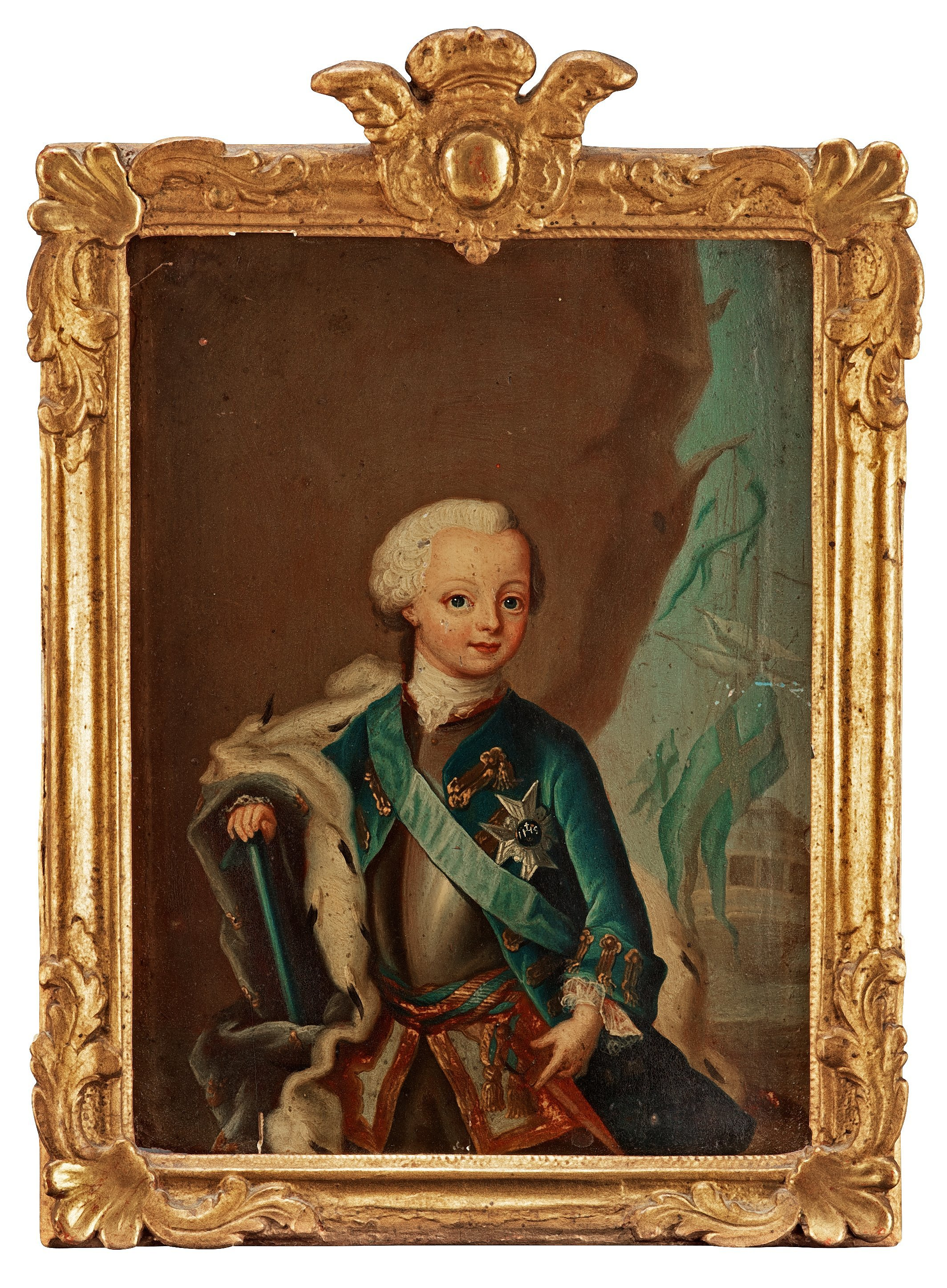 Duke Charles, the future King Charles XIII of Sweden